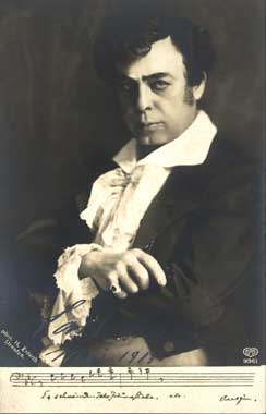 German opera singer Karl Perron